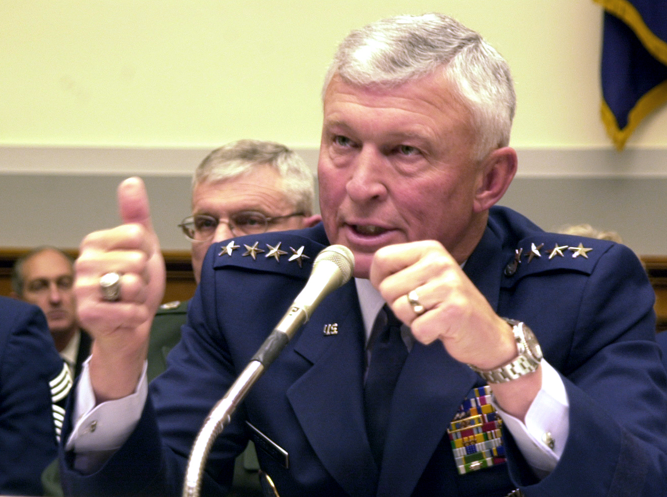 WASHINGTON -- Gen. Ralph E. Eberhart briefs members of the House Armed Services Committee on March 13. Eberhart, who is the commander of U.S. Northern Command and the North American Aerospace Defense Command, described to lawmakers how USNORTHCOM and other organizations counter threats to homeland security.